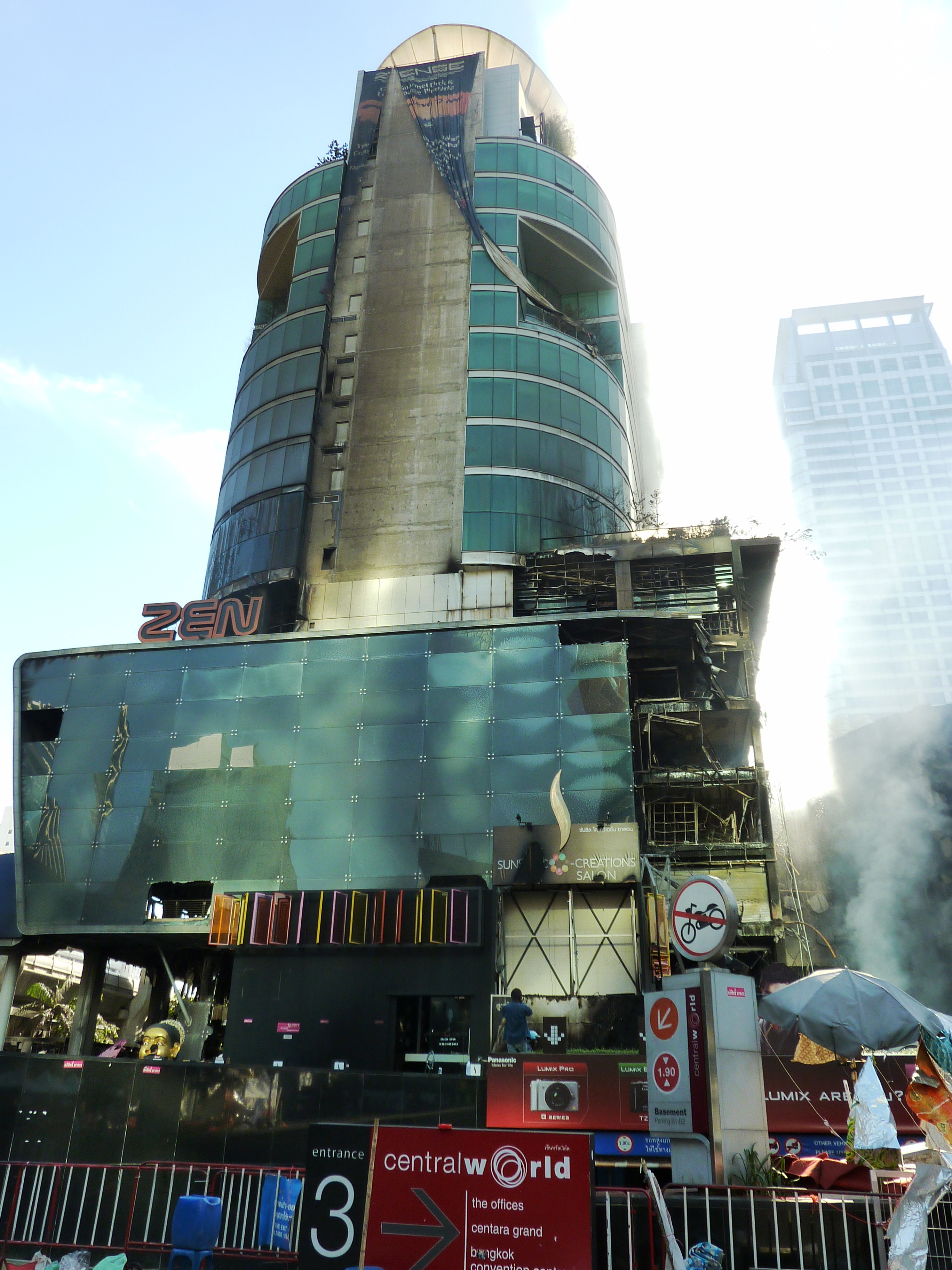 The Central World fire has more or less burned itself out.. Rajprasong, Bangkok, Thailand.